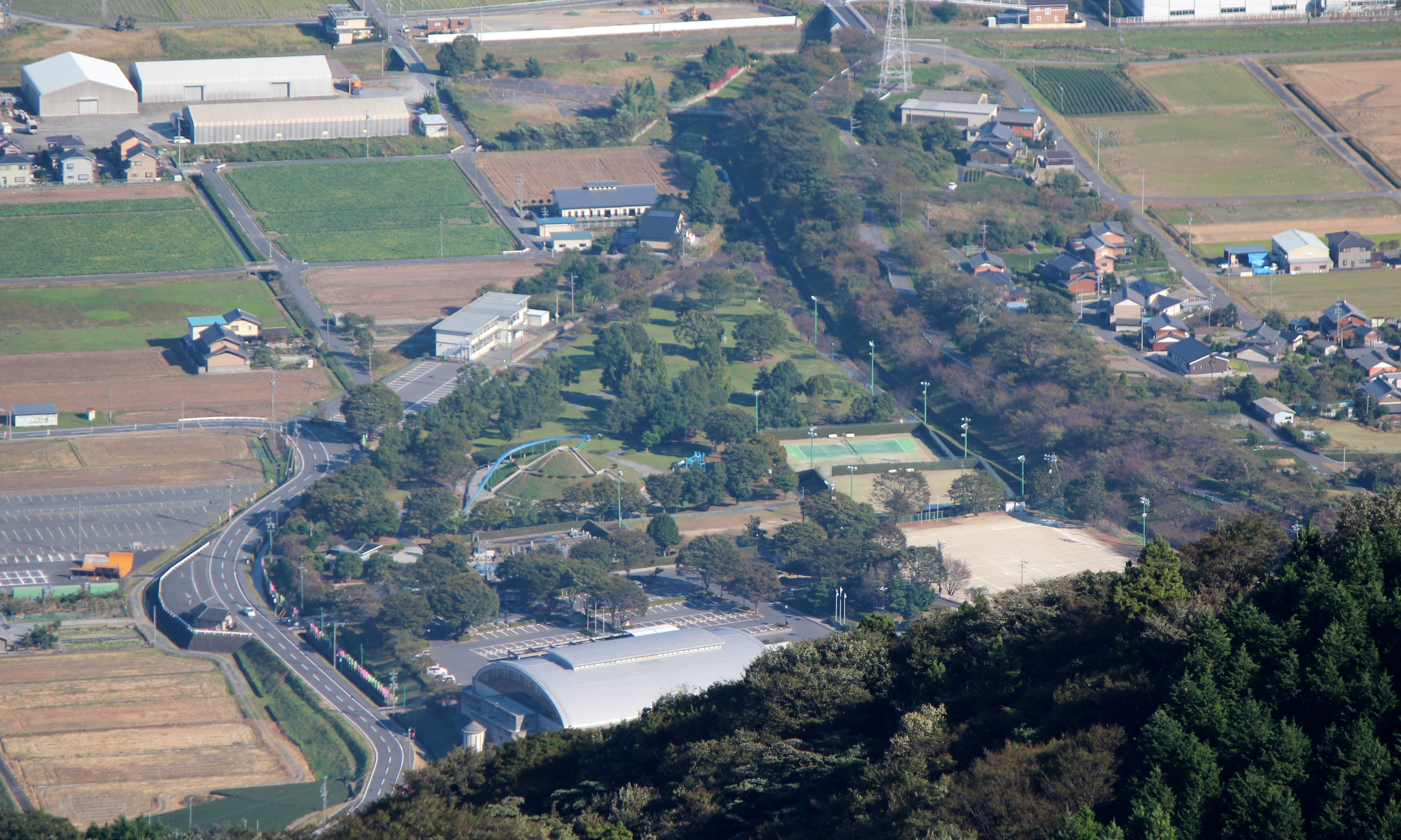 Ikeda town General gymnasium seen from Mount Ikeda in Gifu prefecture, Japan.